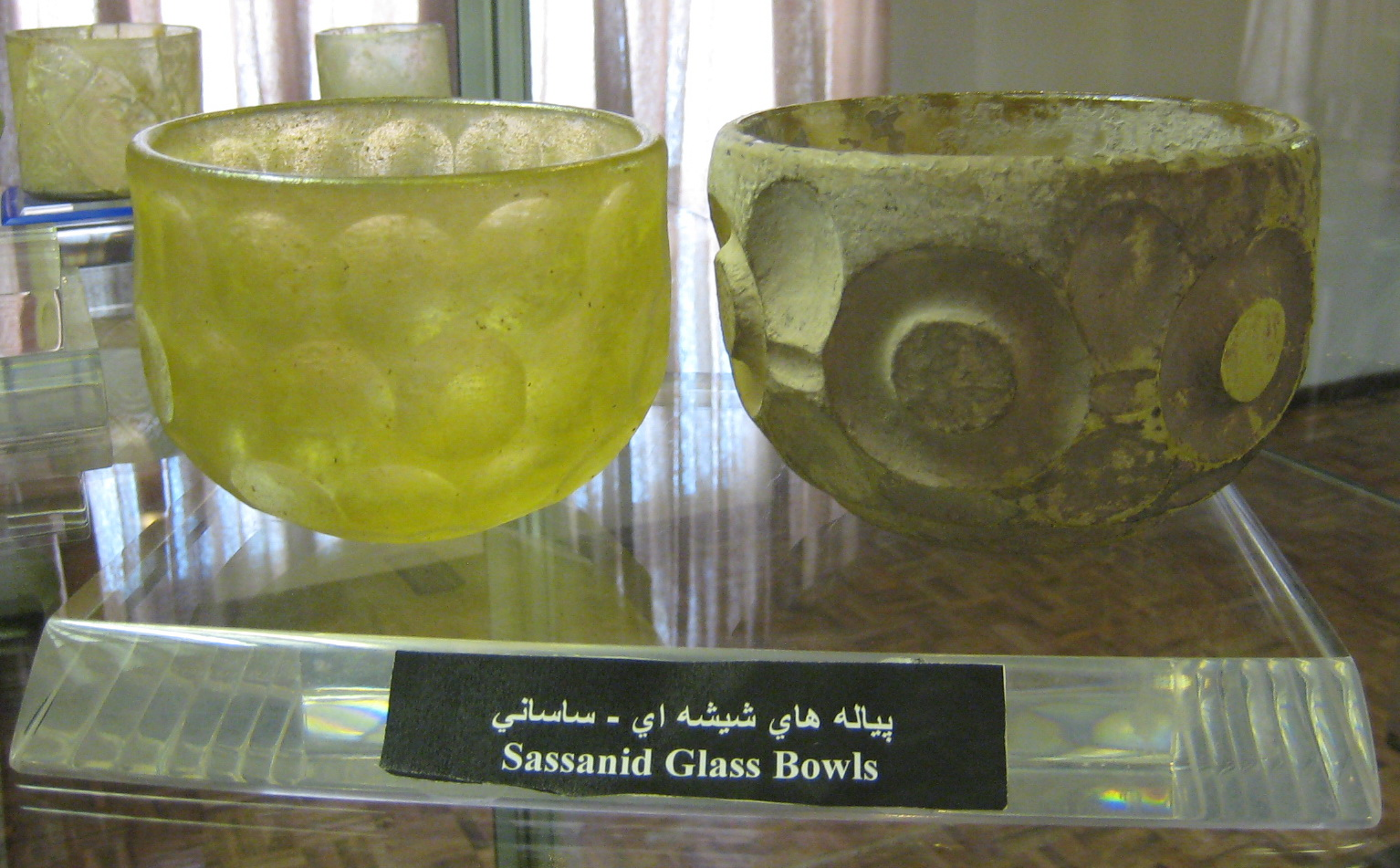 Sassanid glass, Azerbaijan Museum , Tabriz , Iran .